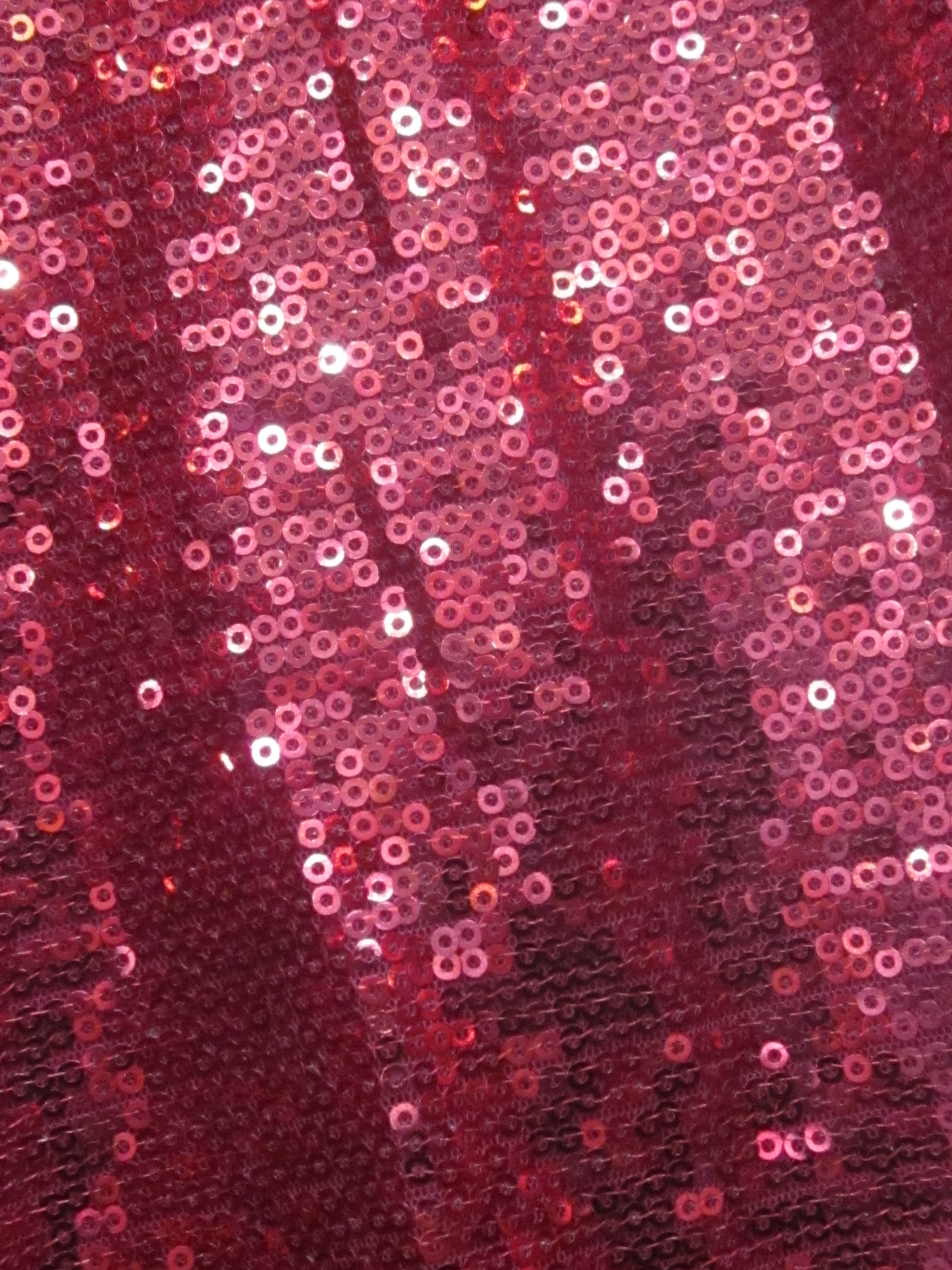 See filename. By Sherrie Thai of . Feel free to download and use these as a background for commercial or noncommercial projects. If you decide to use them, please let me know how it goes by sending a link or an image. Enjoy!